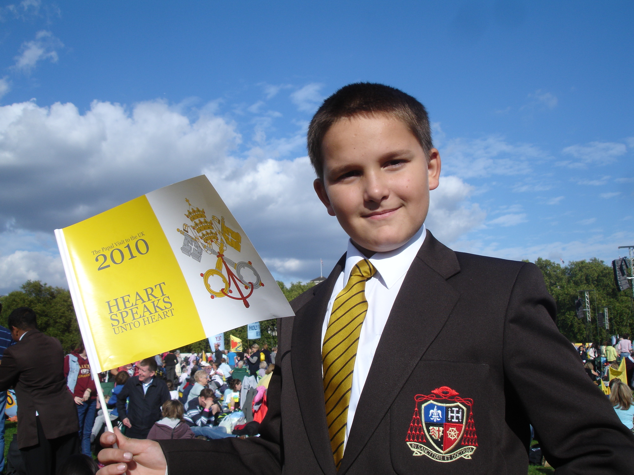 At Hyde Park